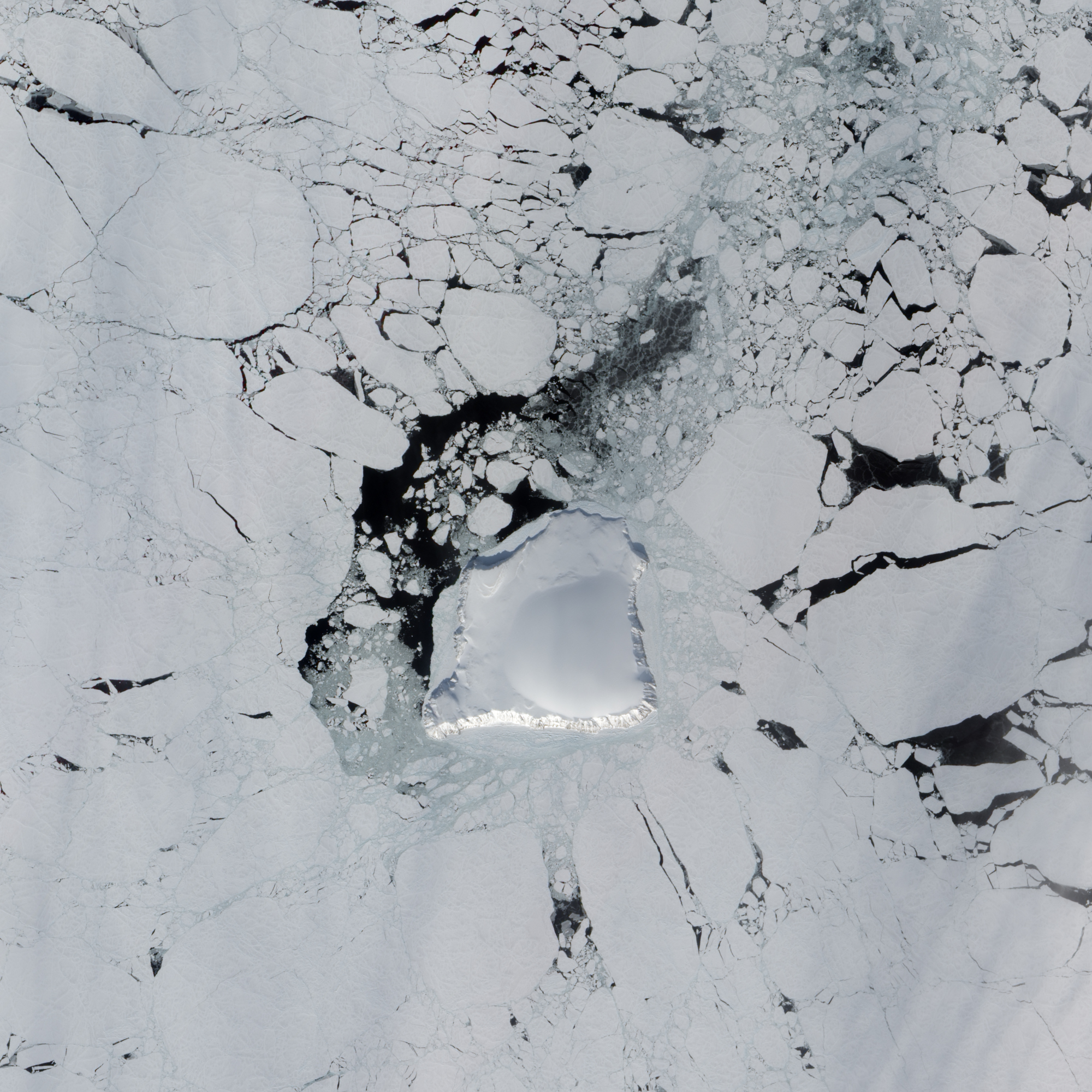 The Advanced Land Imager (ALI) on NASA’s Earth Observing-1 satellite captured this image of Henrietta Island. In this natural-color image, the island casts shadows to the north, thanks to the Sun’s low angle and the island’s own steep, rugged coastline. Inland, an icy dome covers most of the island, its southern surface slightly illuminated.